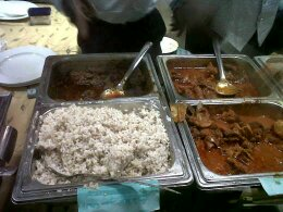 white rice with soup This is an image of food from Nigeria